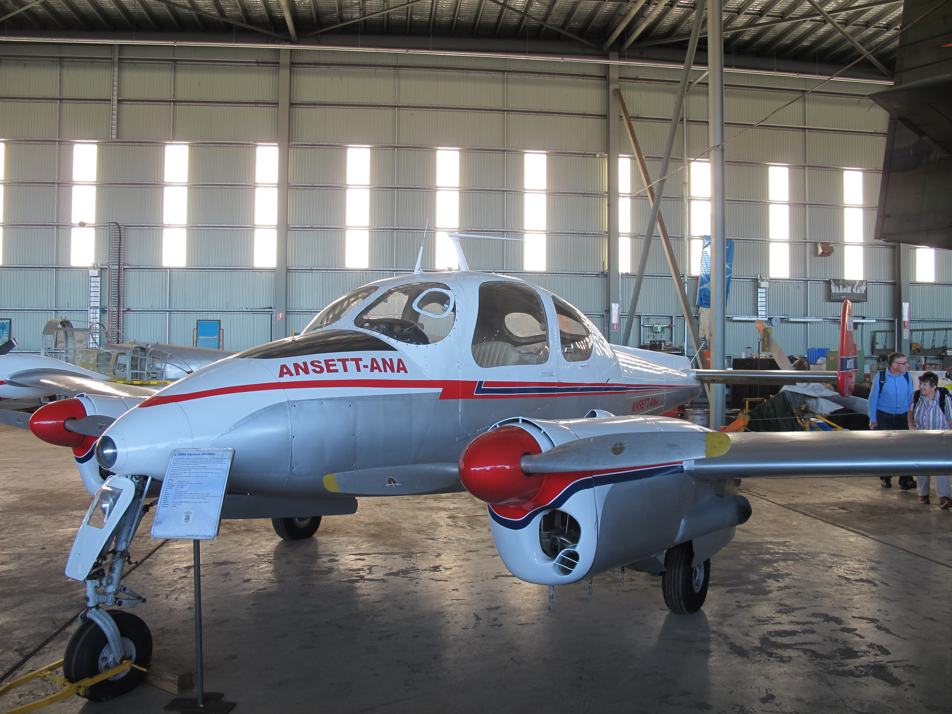 An Ansett ANA LET Morva